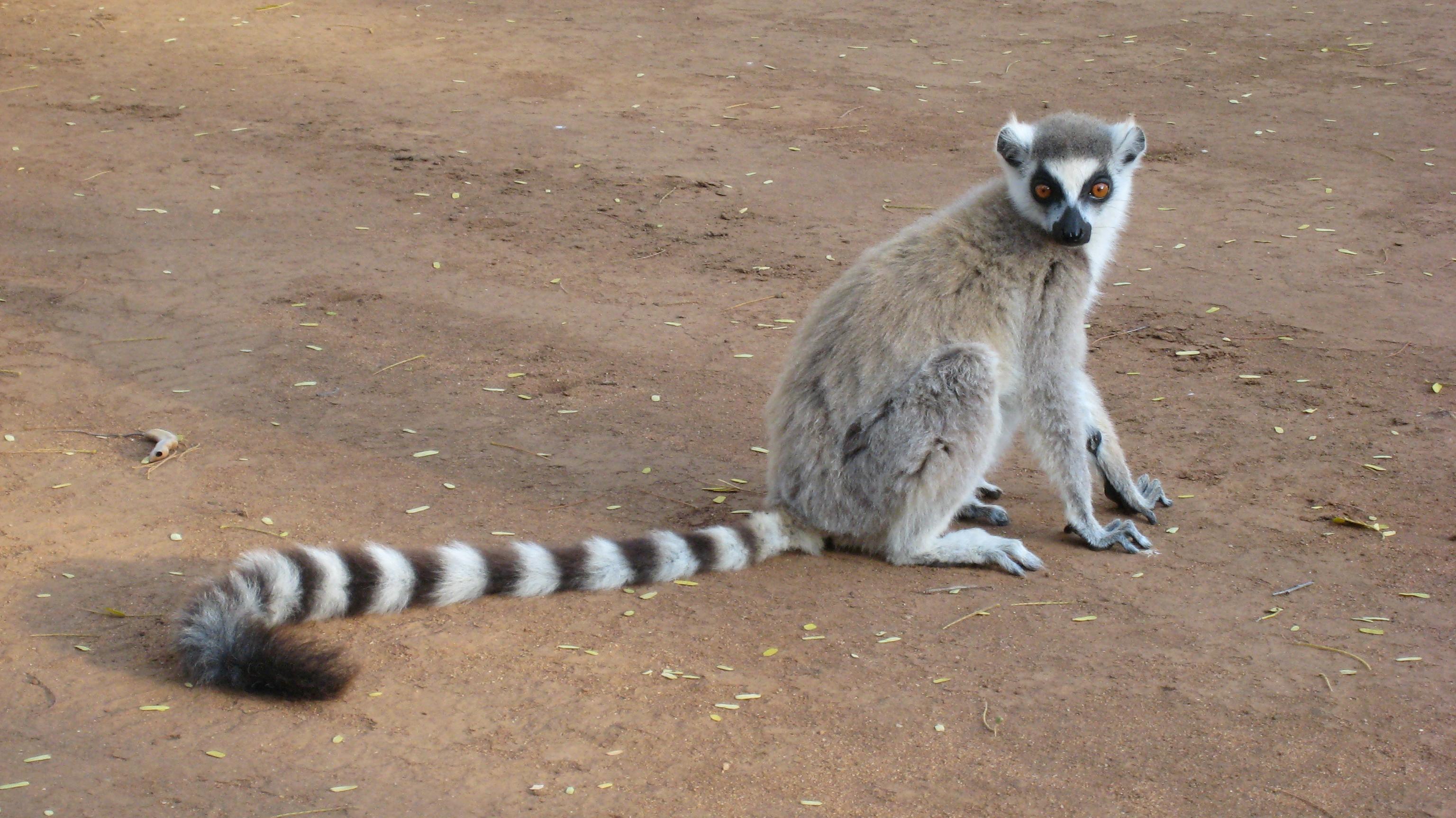 Ring-tailed Lemur (Lemur catta) at Berenty Private Reserve in Madagascar